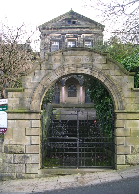 Birchcliffe Centre - Birchcliffe Road Originally built in 1898 as Birchcliffe Baptist Church, it is now an education and training centre.